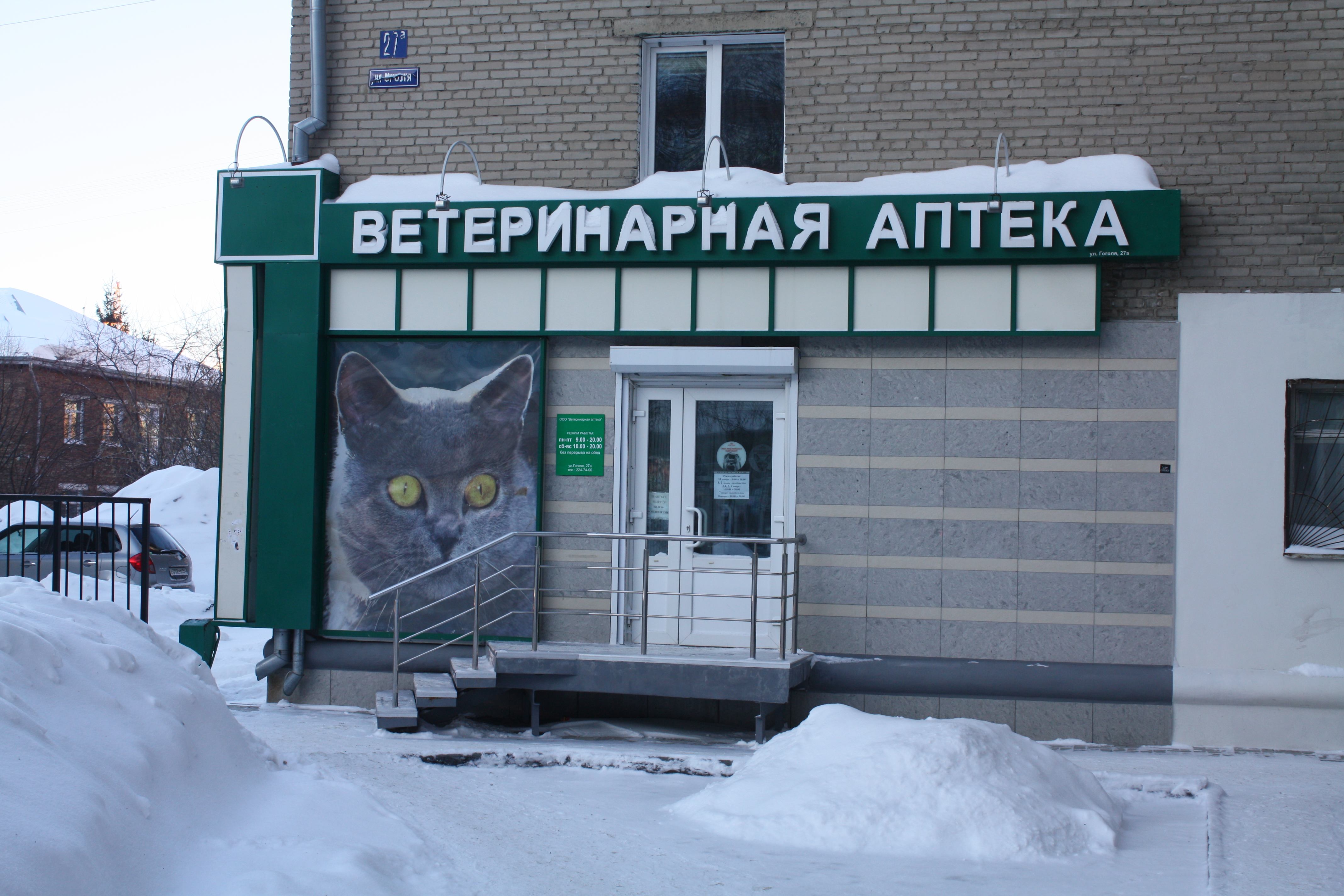 Veterinary pharmacy in Novosibirsk.